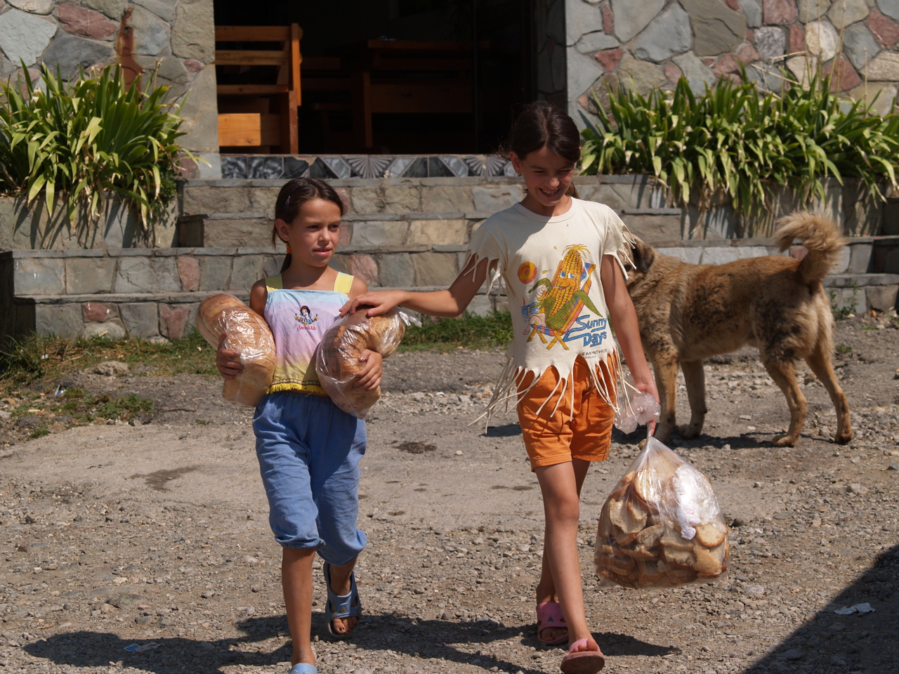 Girls buying bread in Pogradec, Albania